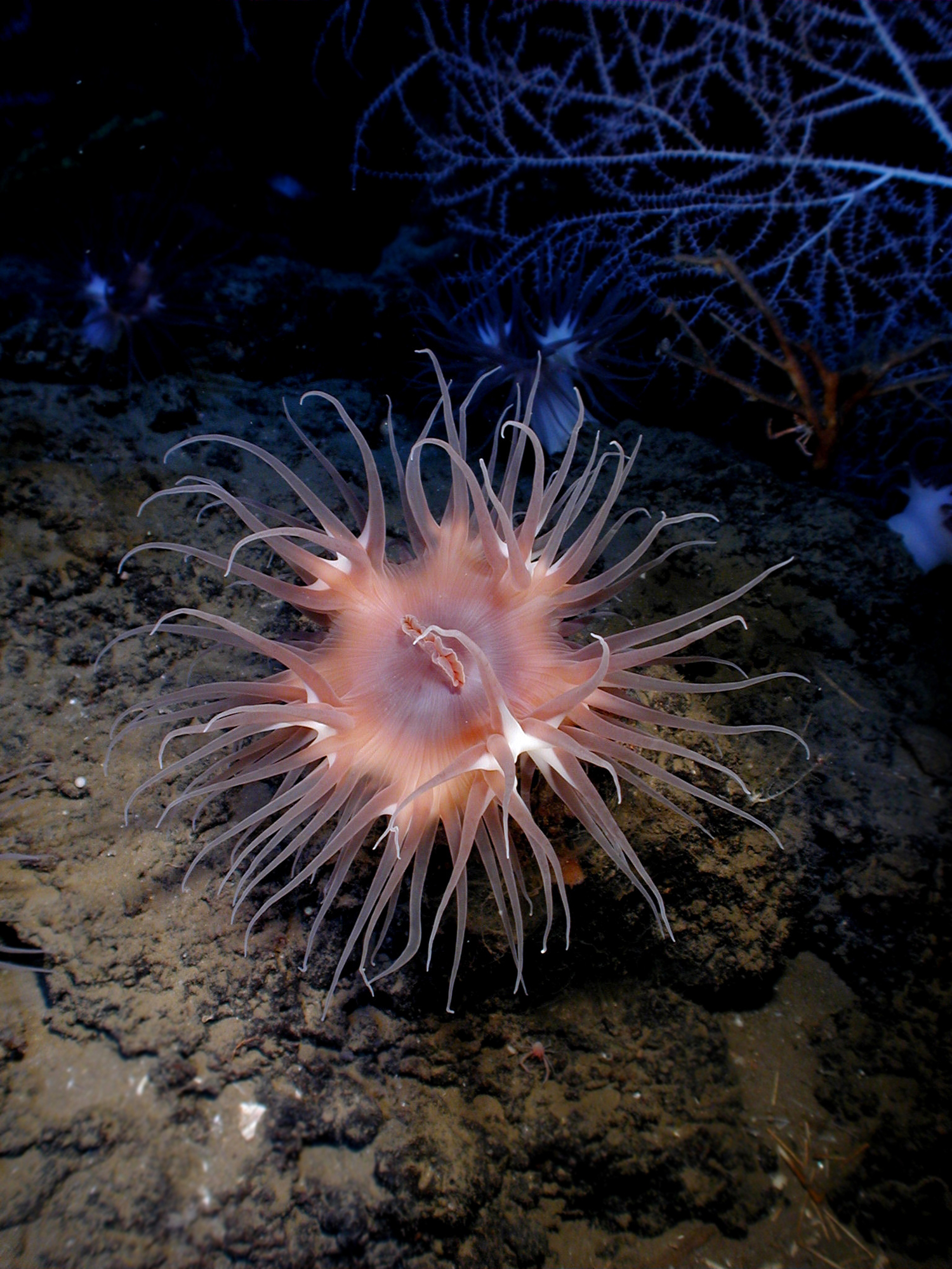 Actinostola sp. in the Gulf of Mexico.